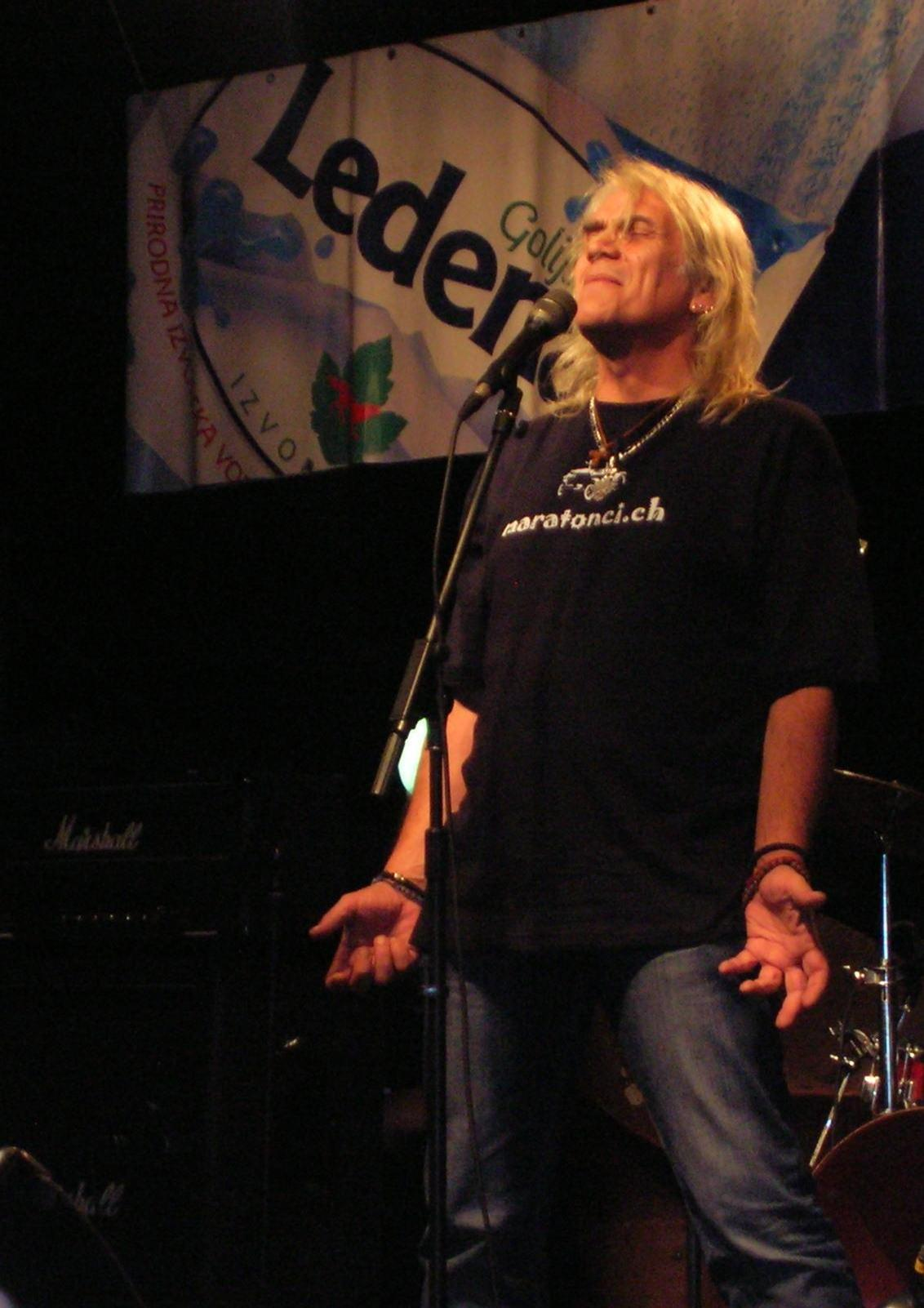 Serbian rock singer Bora Đorđević in concert in 2008